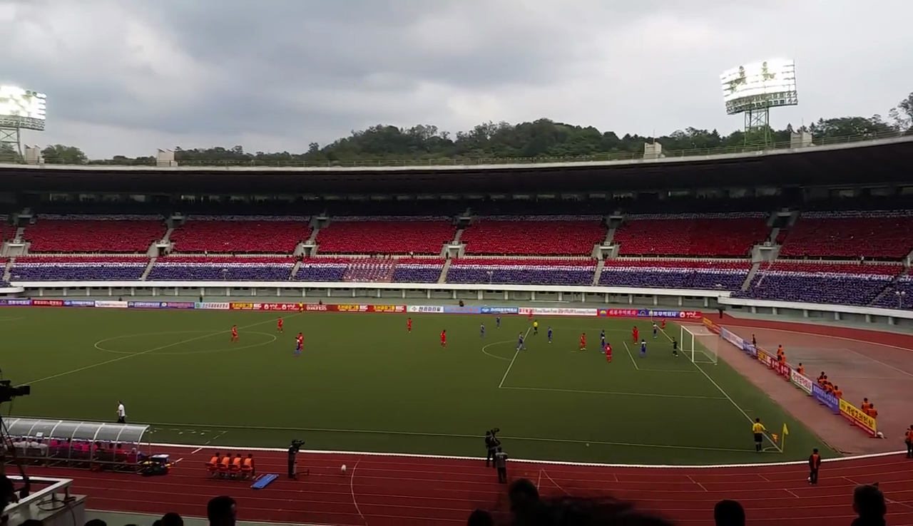 North Korea v Philippines, 8 October 2015 - FIFA World Cup 2018 qualifiers (AFC Second Round)